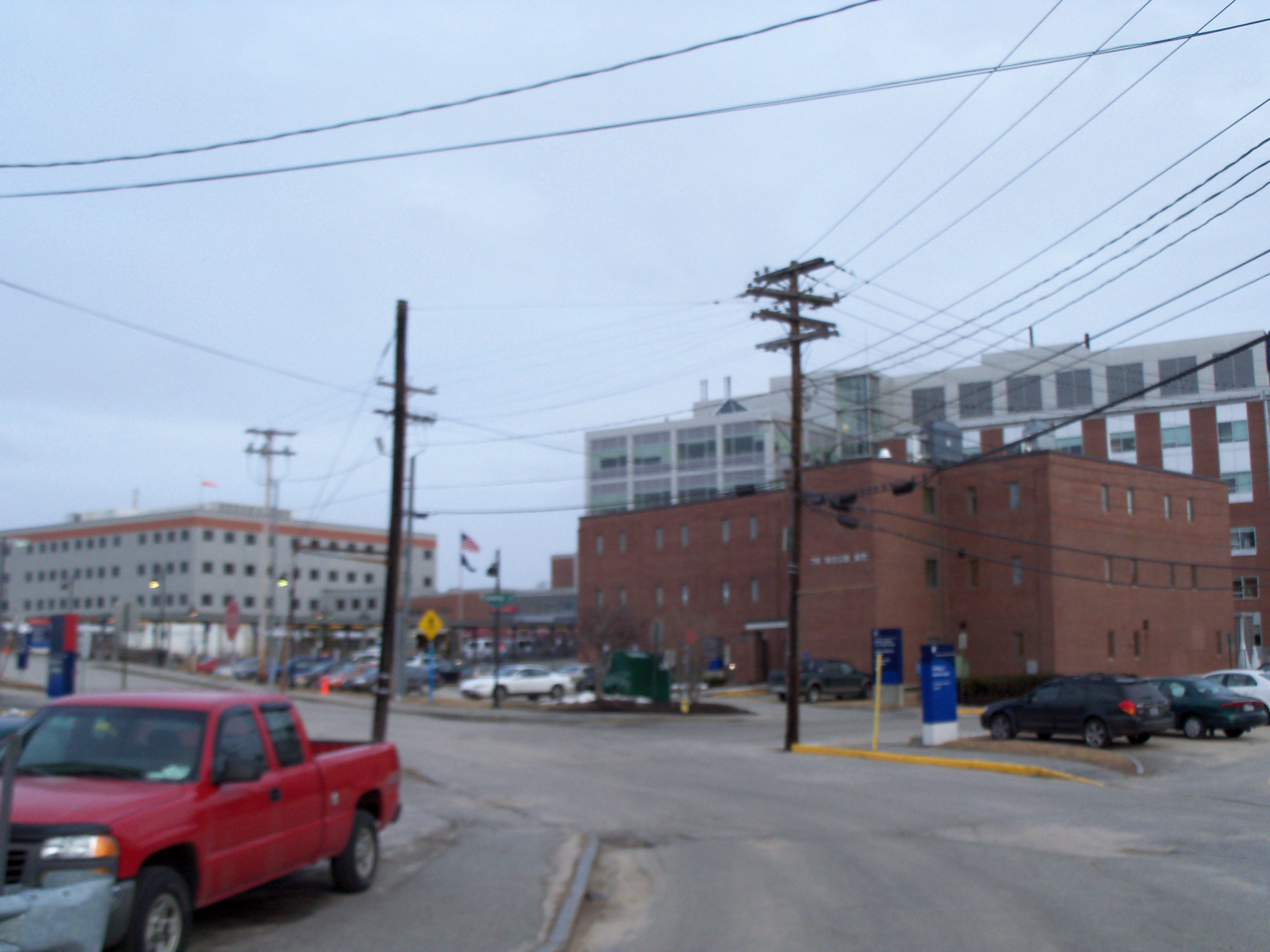 Campus view of Central Maine Medical Center on High St. in Lewiston, Maine